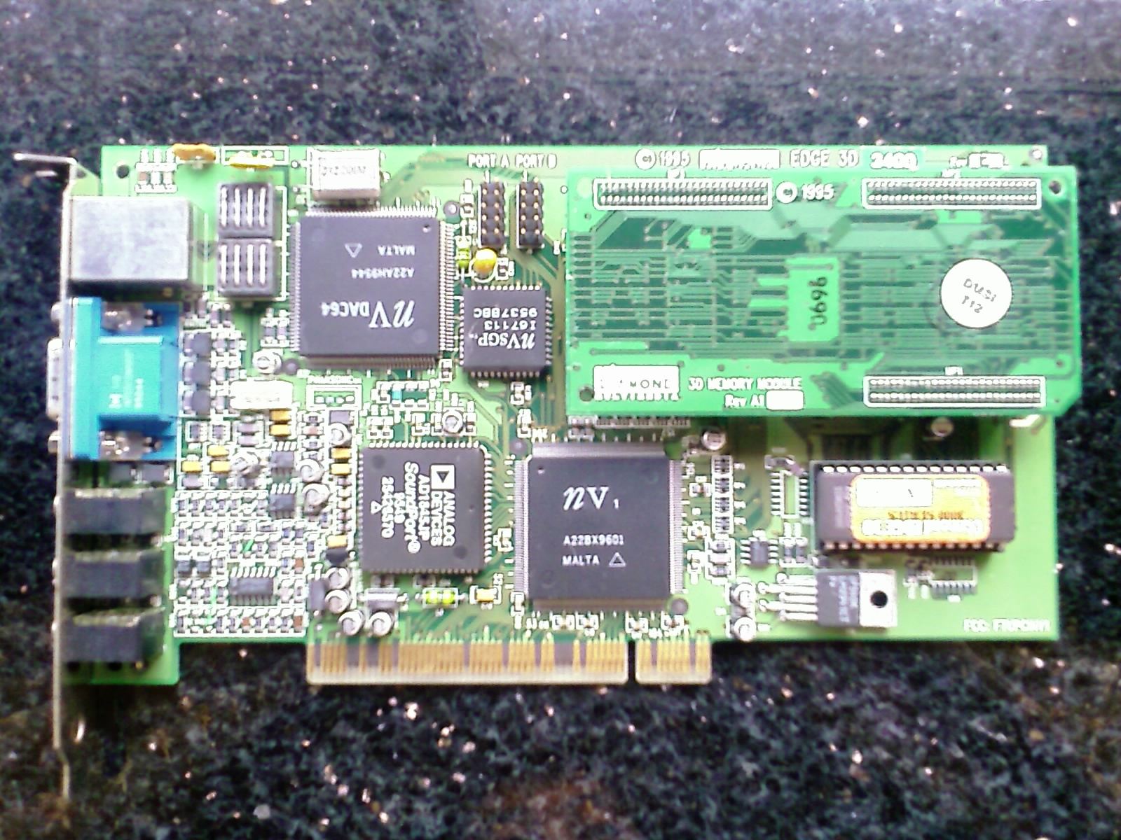 Nvidia NV1